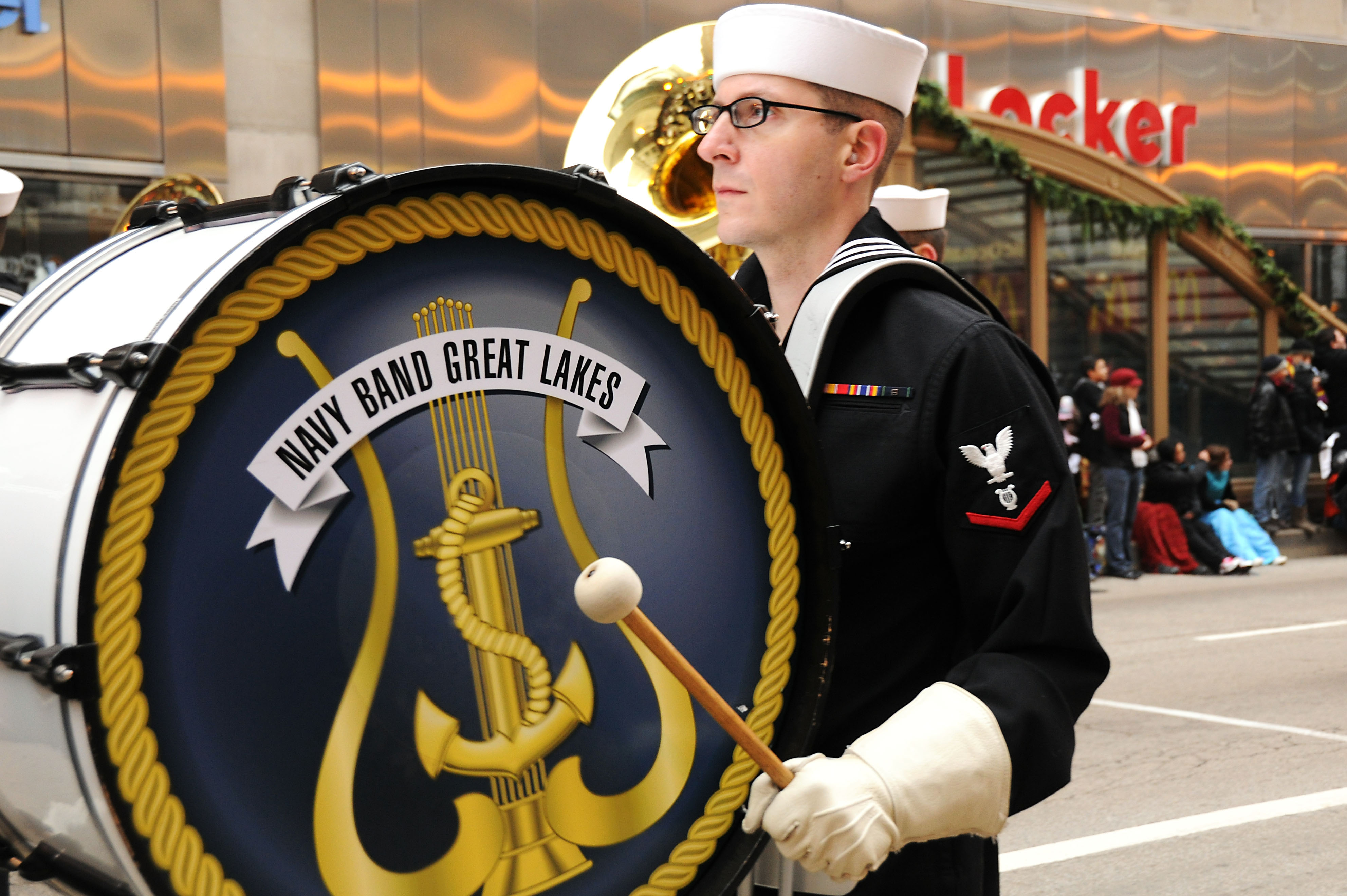 CHICAGO (Nov. 24, 2011) Musician 3rd Class Jonah David, from South Orange, N.J., a member of the U.S. Navy Band Great Lakes, keeps the beat on a bass drum in the Chicago Thanksgiving Day Parade. The parade celebrated its 77th year and has been an annual tradition for Chicago residents and the nation. (U.S. Navy photo by Mass Communication Specialist 1st Class Andre N. McIntyre/Released)